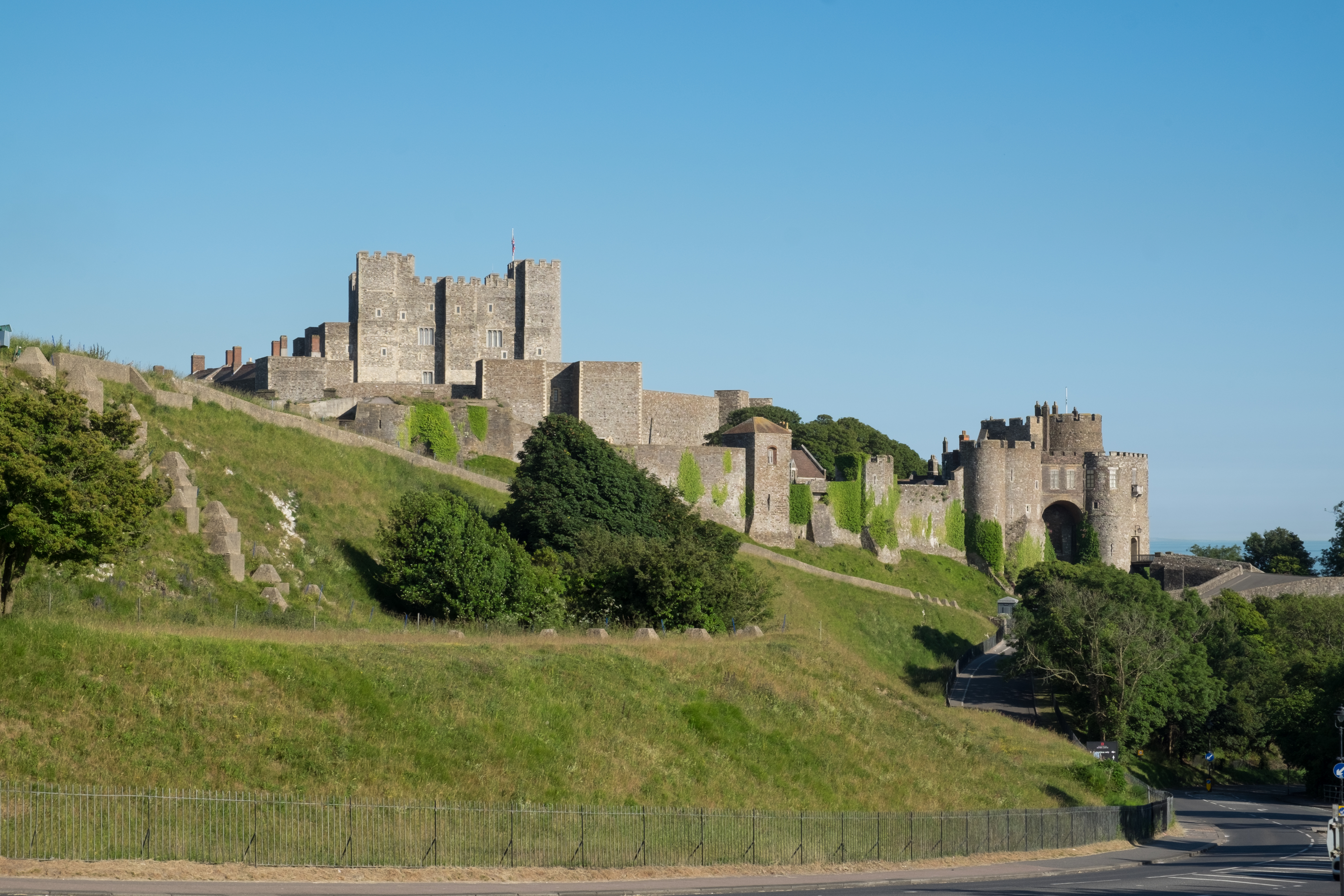 A northern view of Dover Castle showing the Great Tower, the Inner Curtain Wall, the Godsfoe Tower, the Treasurer's Tower and the Constable's Gate. The castle is a grade I listed building in England